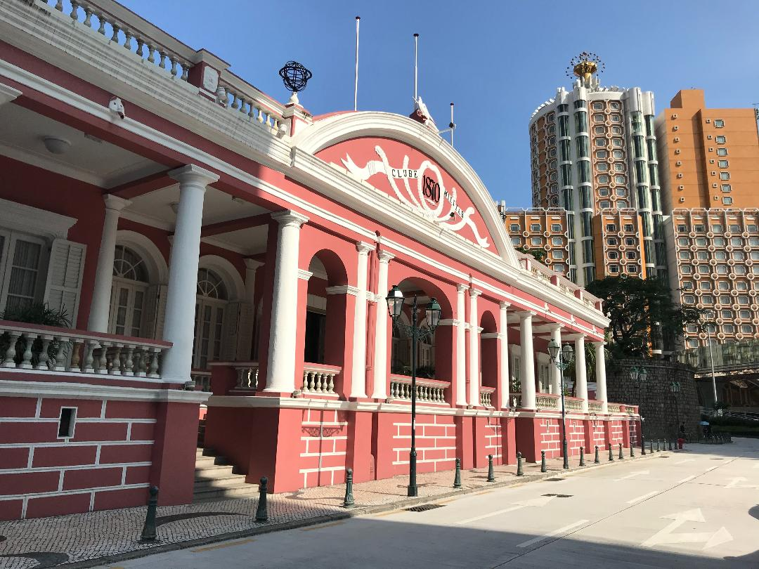 Macau Military Club, built in 1870.